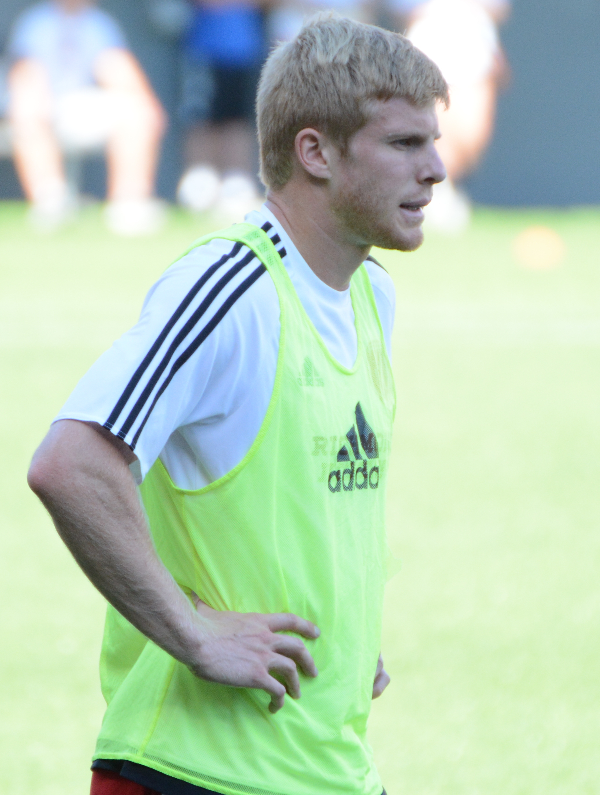 Taken during a USL regular season match between FC Cincinnati and Richmond Kickers at Nippert Stadium in Cincinnati, USA on July 9, 2017.